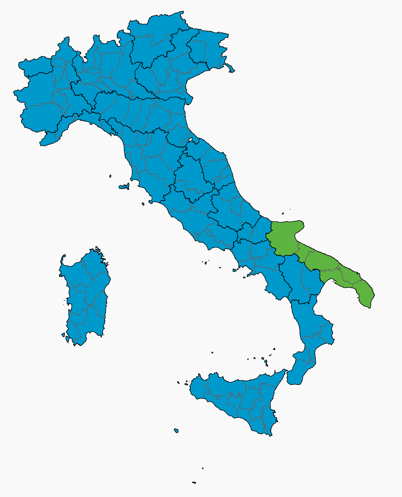 This is a map of the Democratic Party leadership election, 2017. Renzi Emiliano